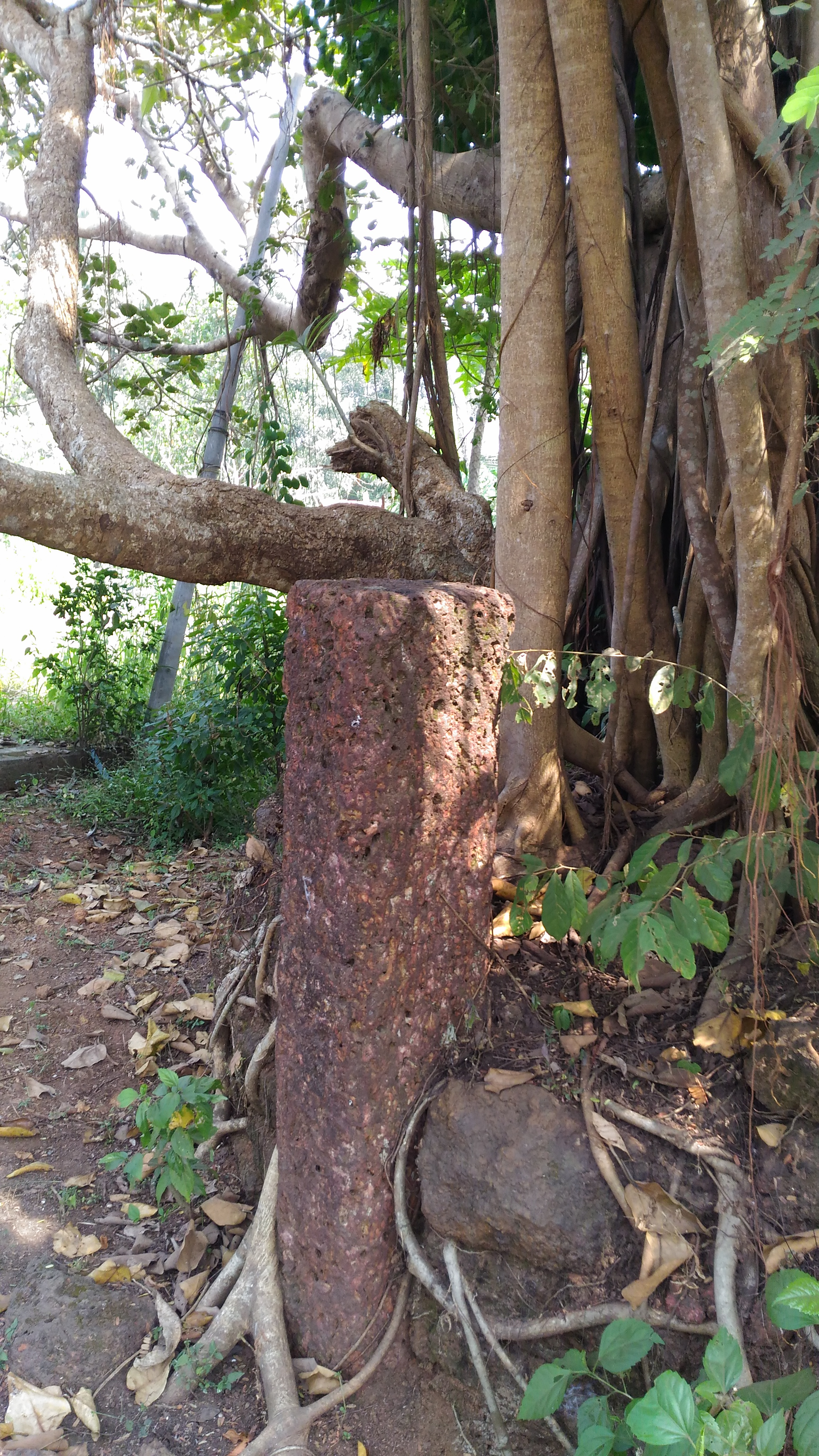 An erection found in front of a house at Mavungal _ Kanhangad -Mavungal road. It was built in 1956 as said by the house owner. made of single stone.